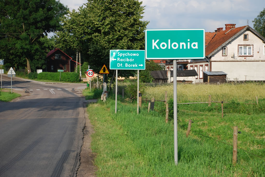 Road to Racibór/crossroad